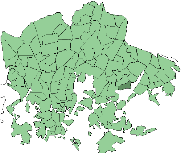 Districts of Helsinki, Marjaniemi highlighted